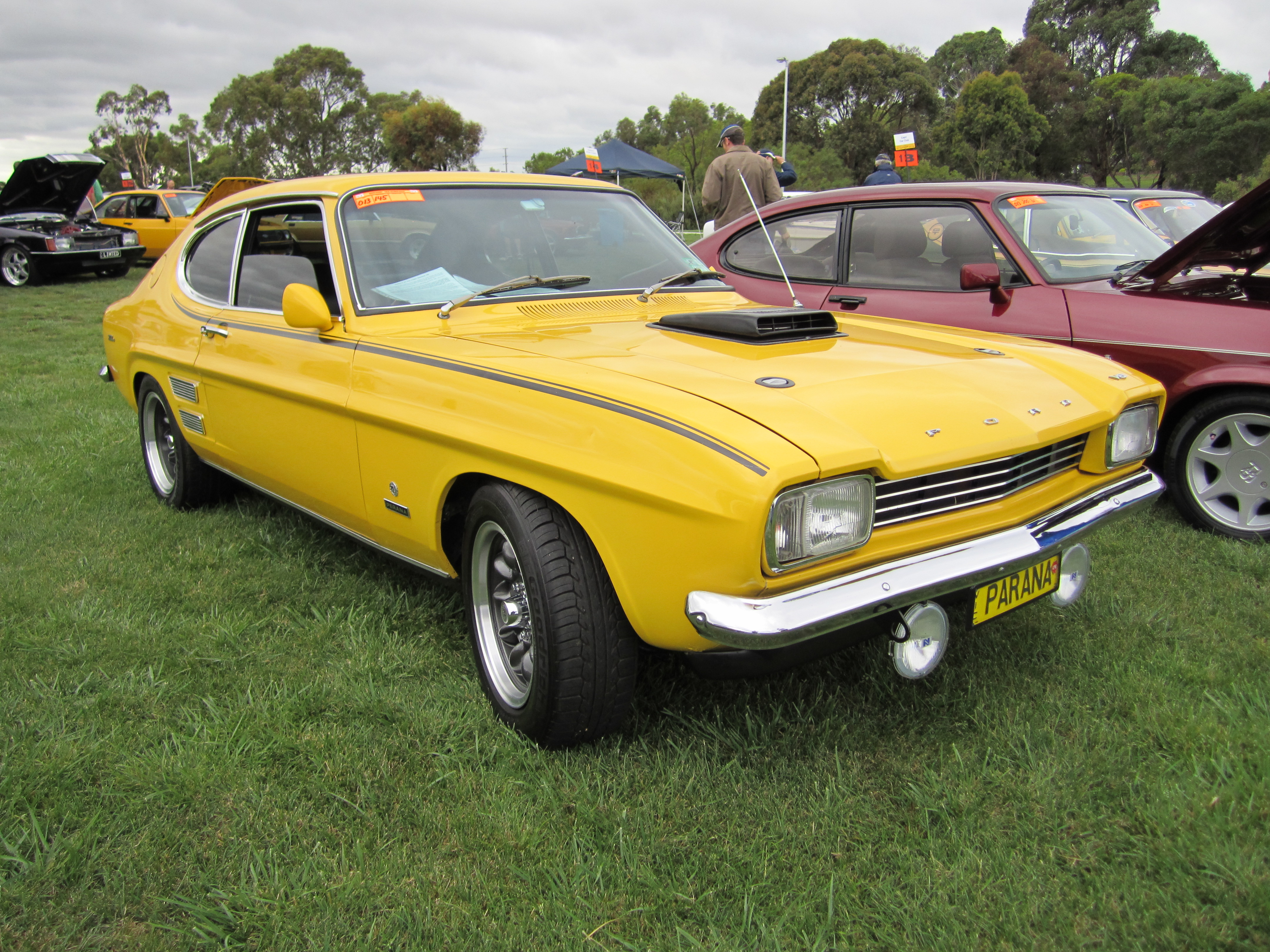 Assembled in South Africa with 281hp 302 Ford V8 from 1970-73, approx 500 were made.